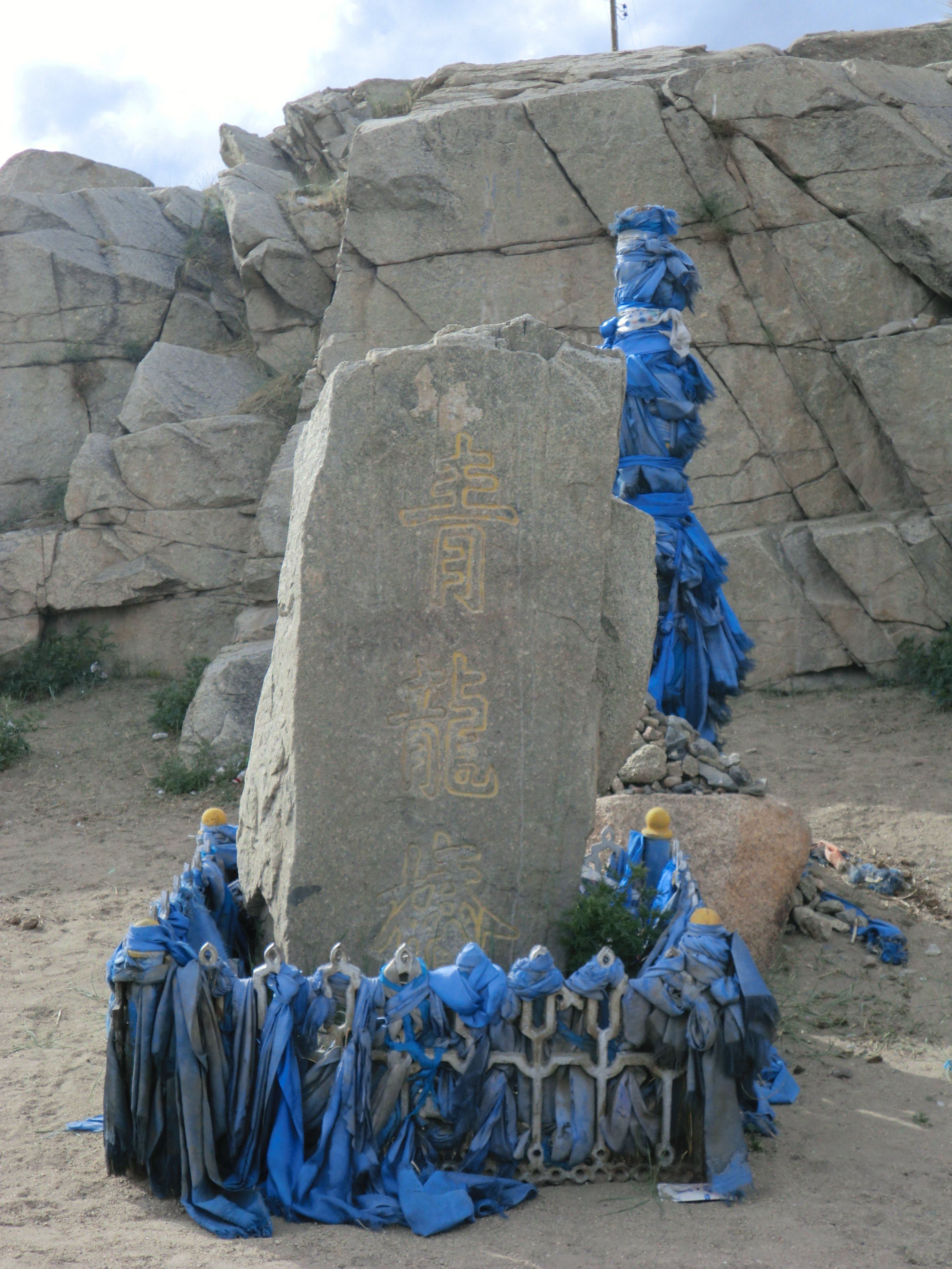 An old Manchurian stone near the Chigestei Gol in Uliastai, Zavkhan aimag, Mongolia. The markings in Chinese 青龍橋, translated to "Azure Dragon Bridge"